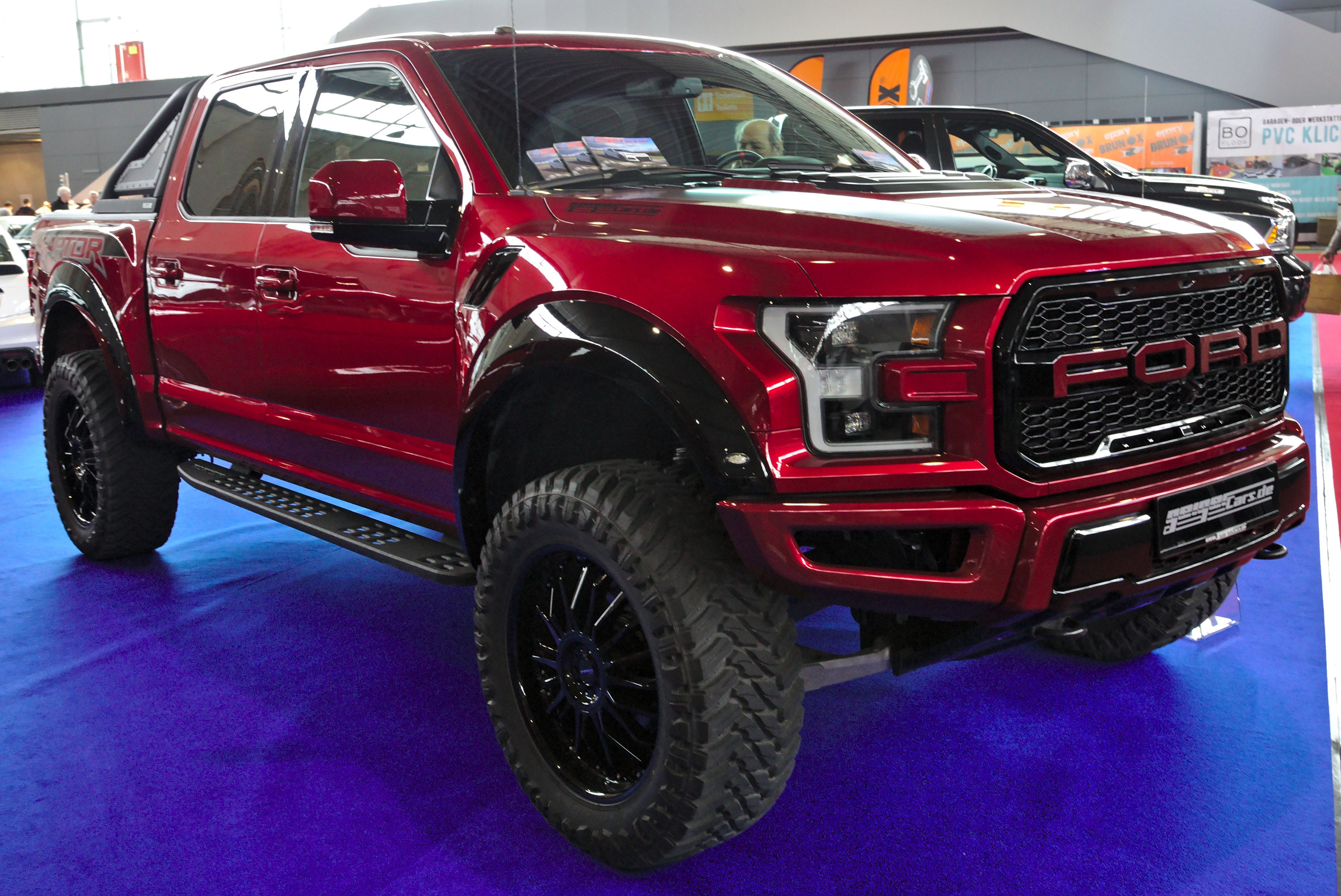 Ford F-150 Shelby Raptor at Retro Classics 2018